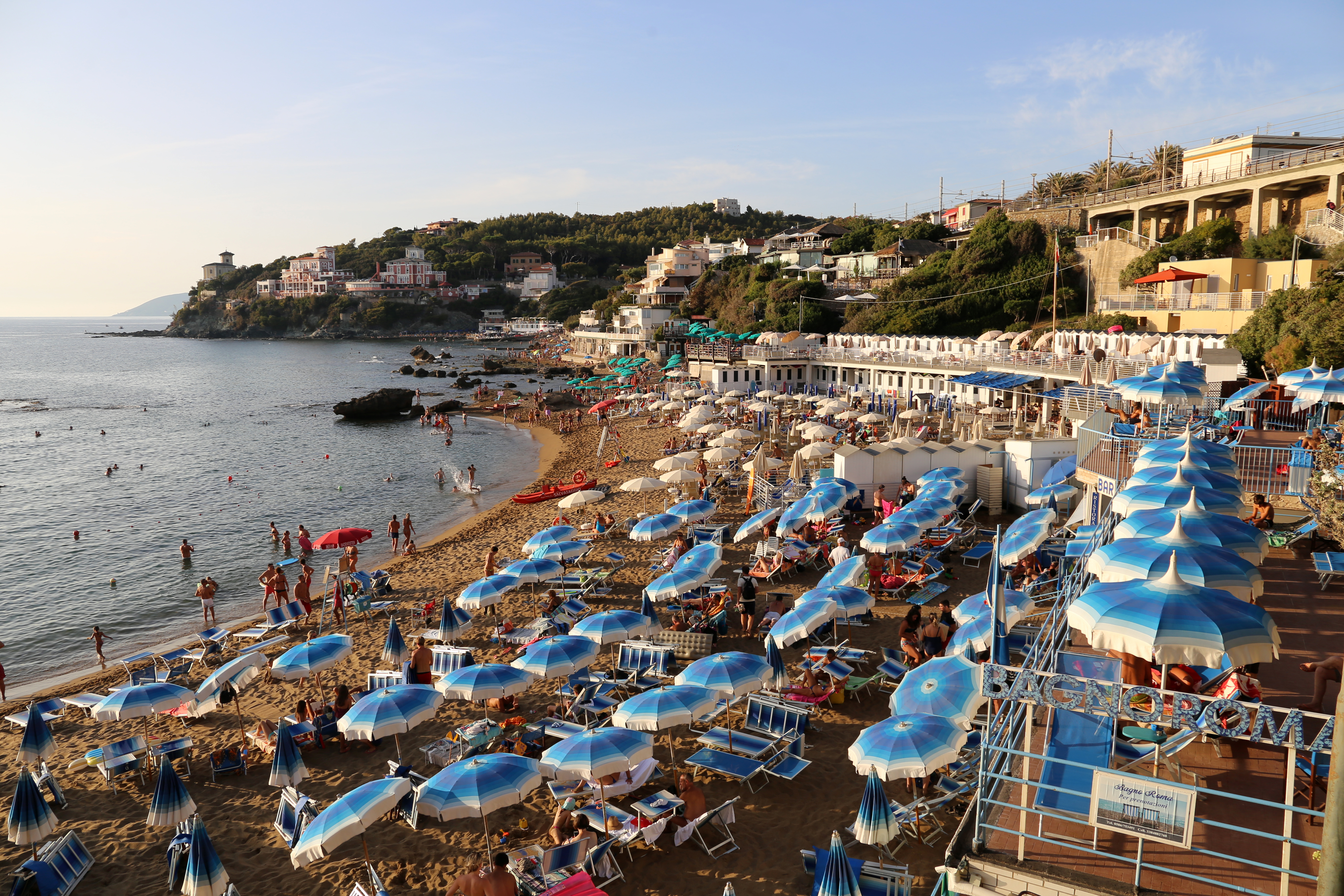 Views of Castiglioncello